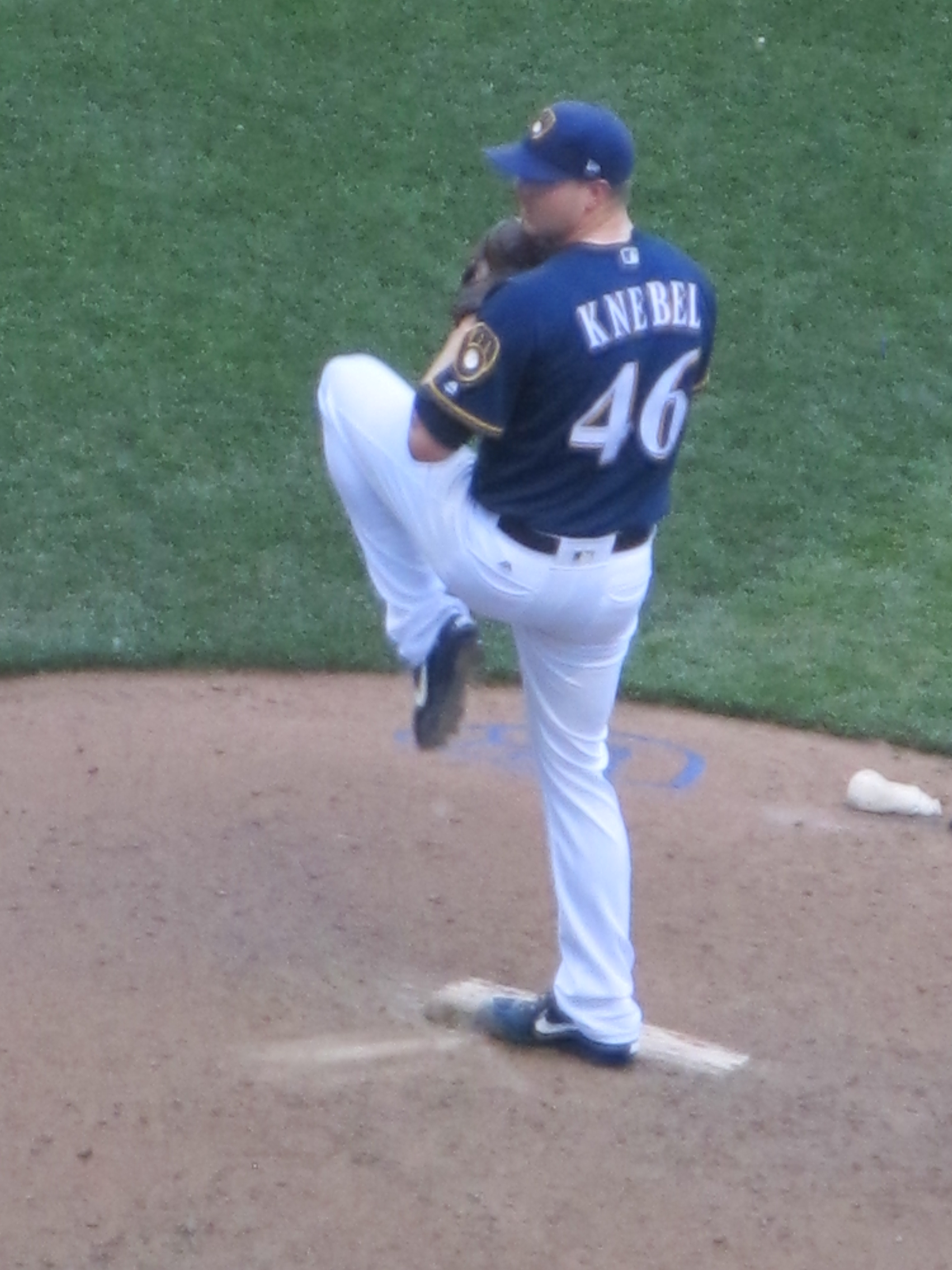 Corey Knebel winds up during a June 2017 game